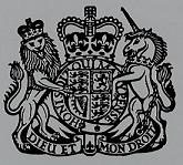 The logo of the Official Assignee and Public Trustee of Singapore, which was essentially the Royal coat of arms of the United Kingdom. This logo was in use from 1948 till Singapore achieved self-governance in 1959.